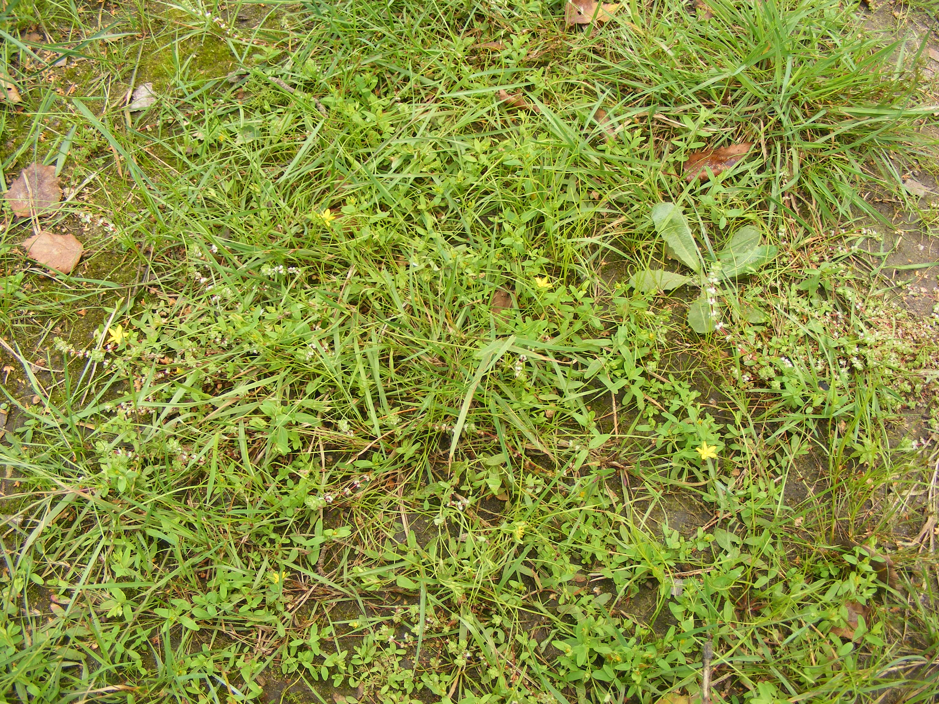 This photo shows Hypericum humifusum